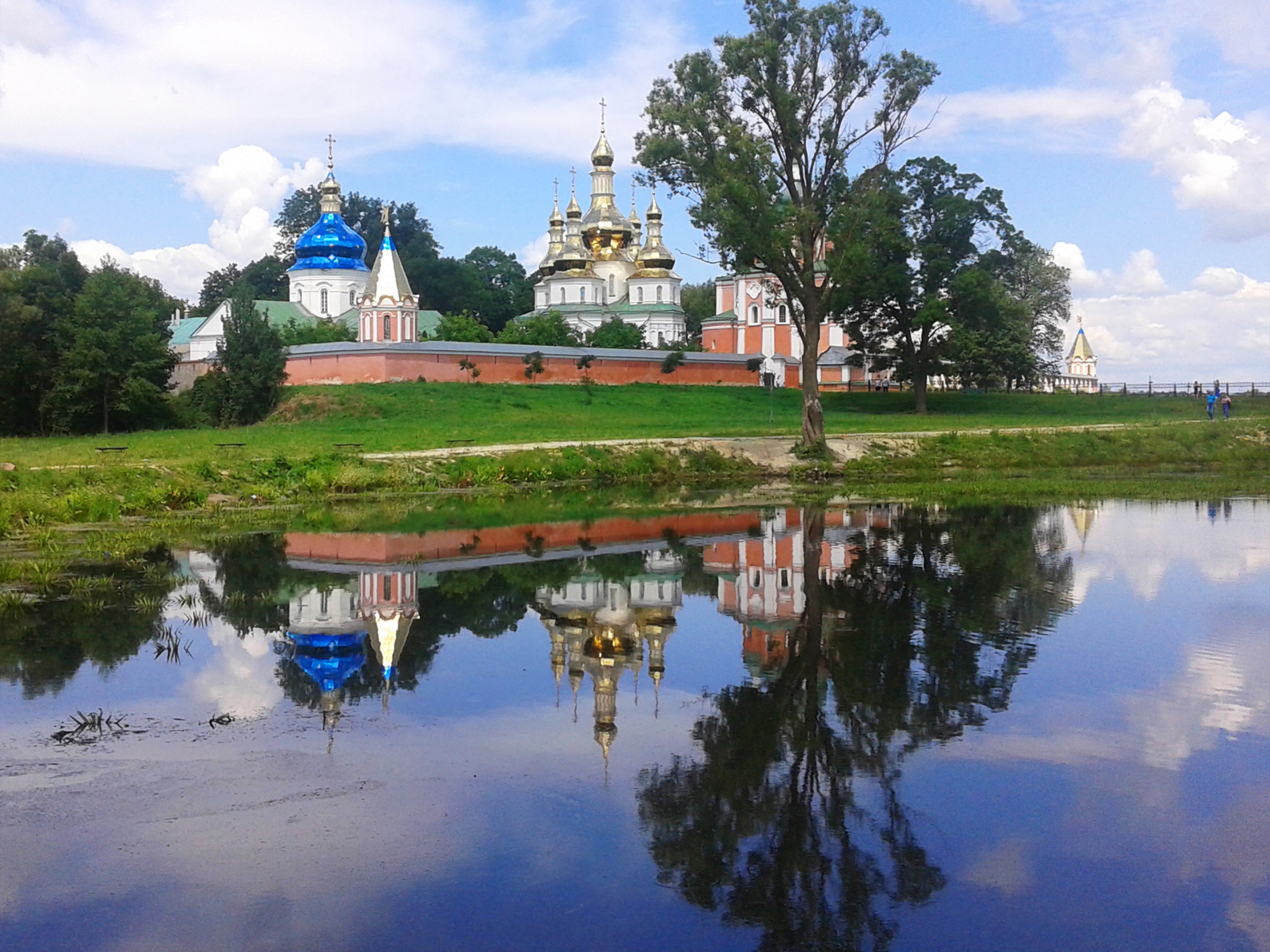 Hustynia Holy Trinity Monastery